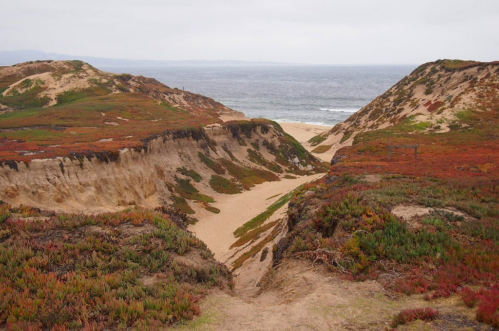 Fort Ord Dunes State Park, Monterey, California, USA.